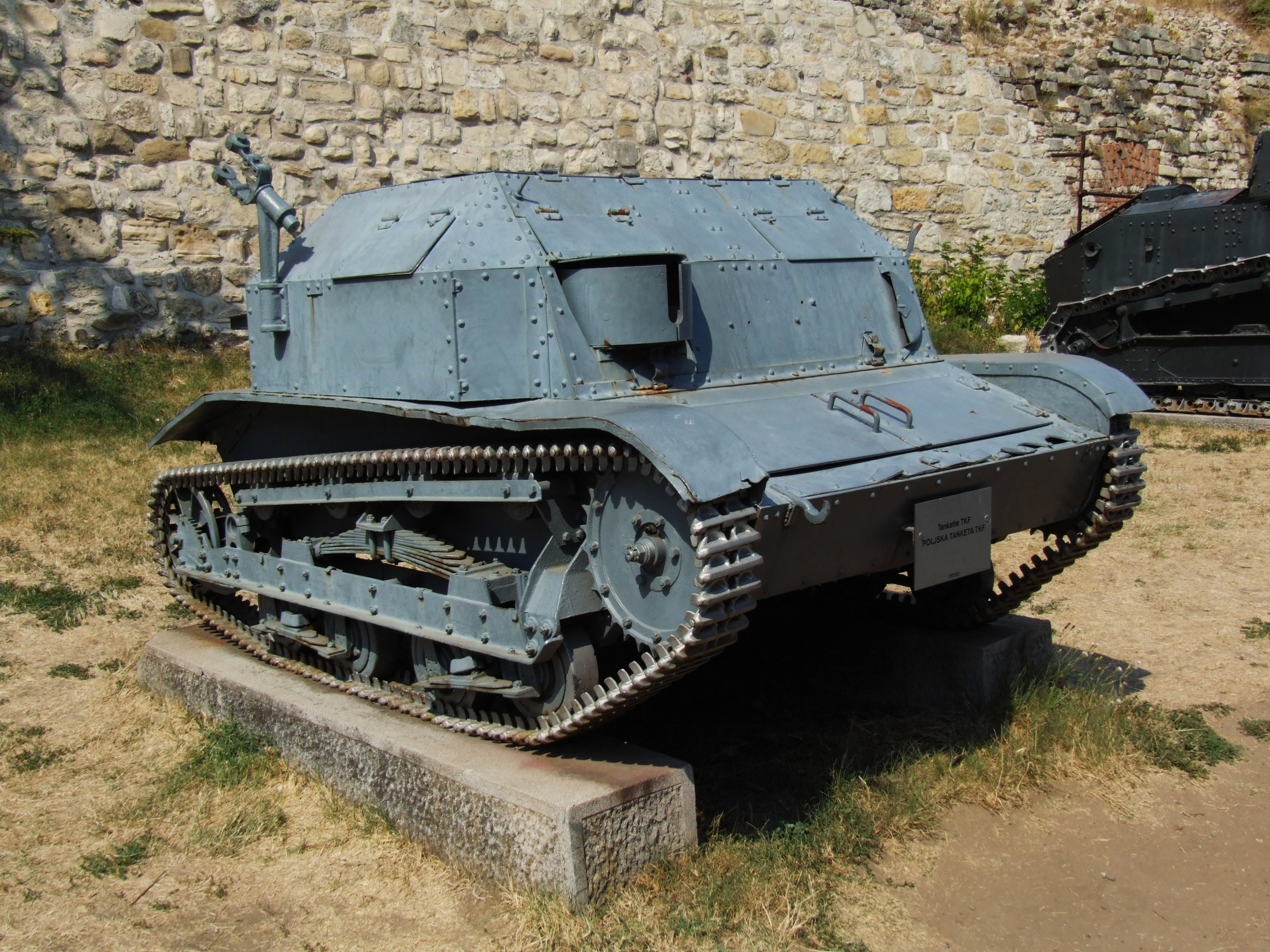 Belgrade Military Museum - polish TKF tankette